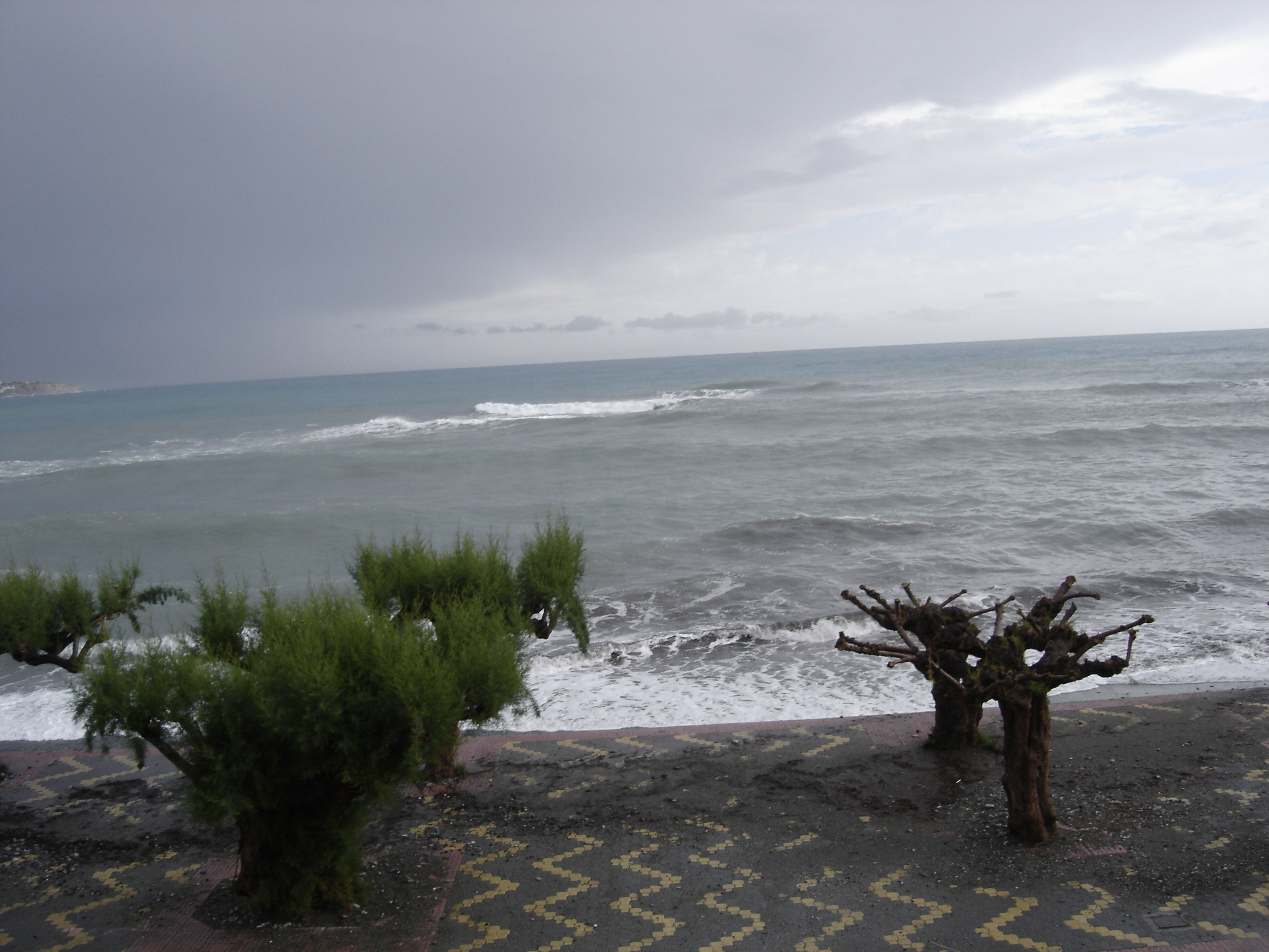 Waves at Ierapetra beach, Crete